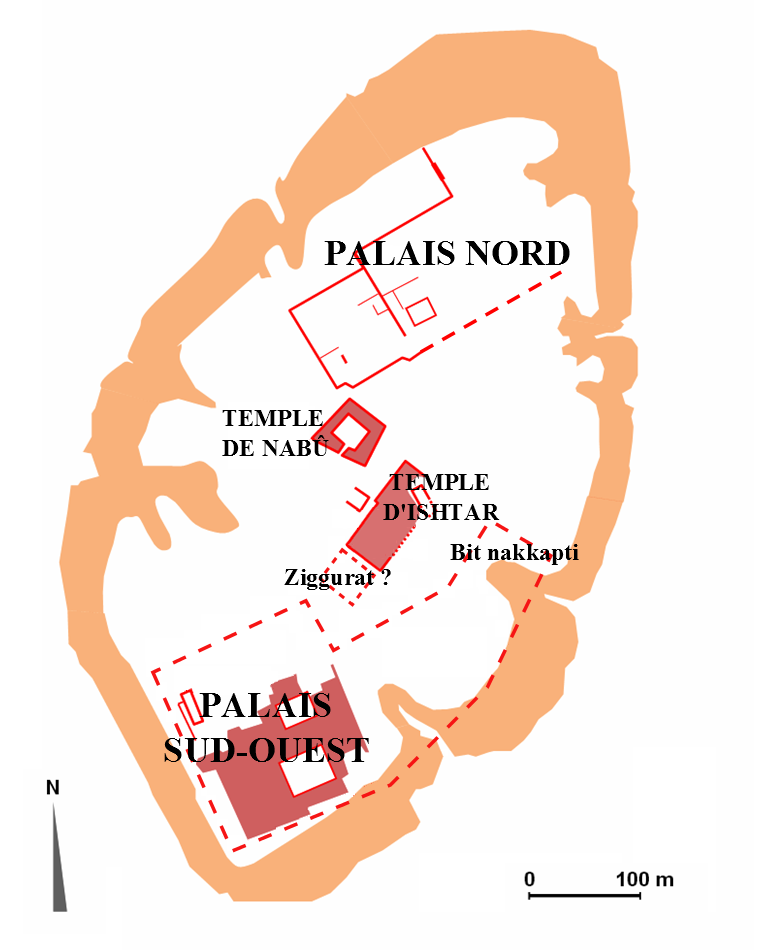 Map of Quyunjiq, the main mound of Nineveh, with the main buildings in red, and the outline of the tell in orange. Redrawn from R. Campbell Thompson, "The Buildings on Quyunjiq, the Larger Mound of Nineveh", in Iraq Vol. 1, No. 1, 1934, p. 97.